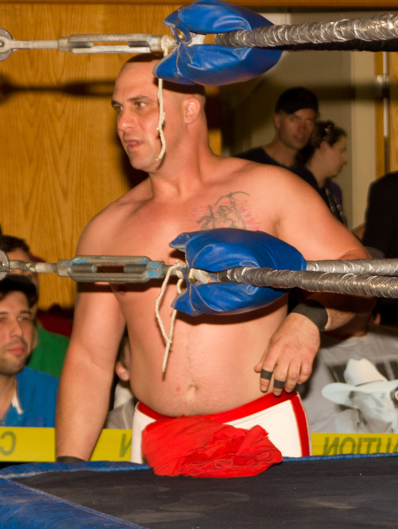 Ruffy Silverstein on May 11, 2012 at a Northern Lights Wrestling show. Cropped from original image.